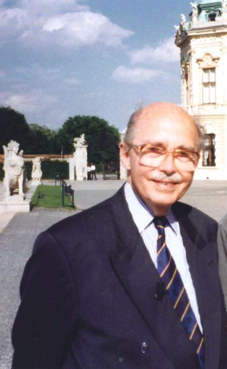 Otto von Habsburg-Lothringen, during an interview at Belvedere palace in Vienna, 1998.